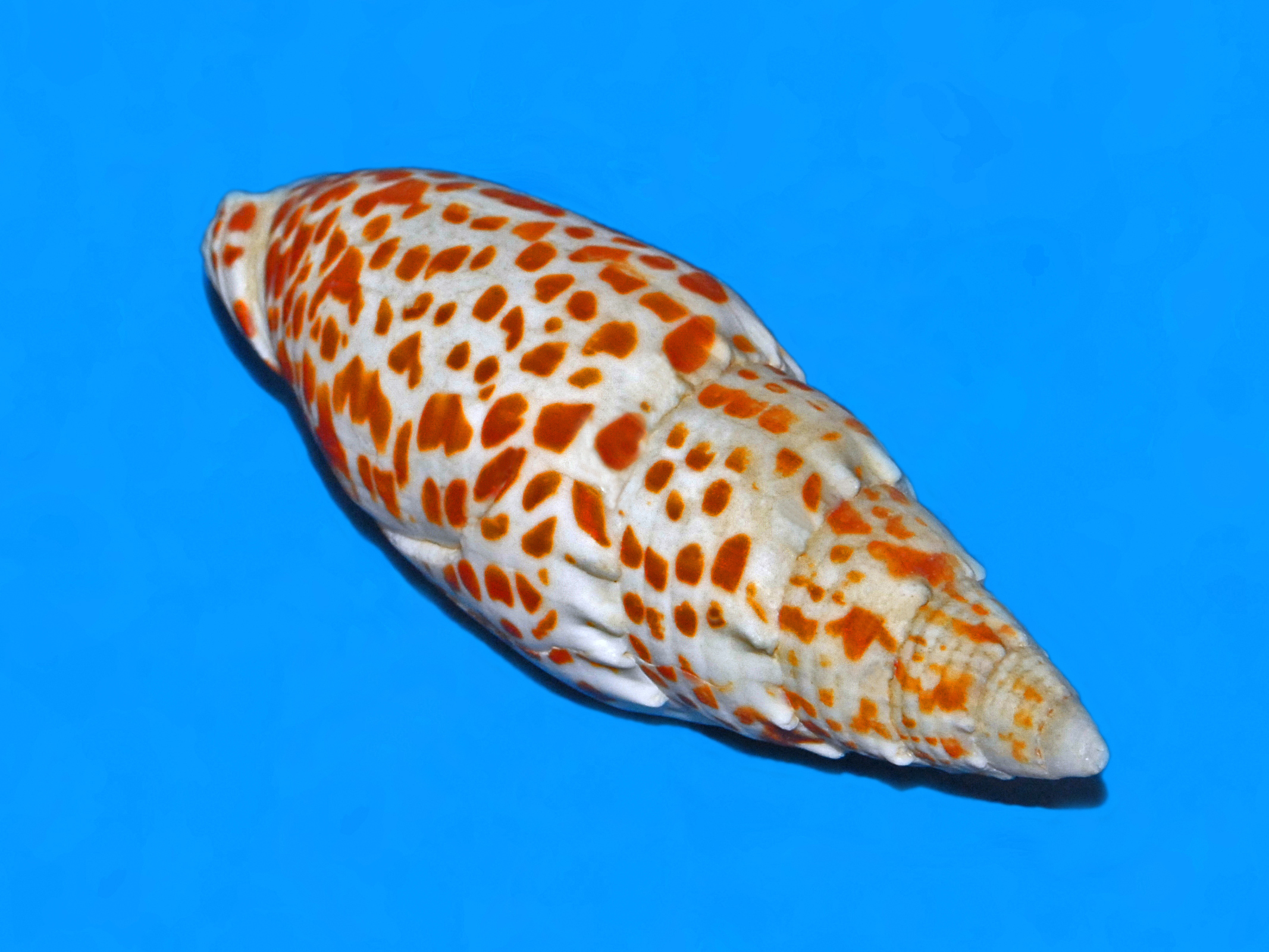 A shell of Mitra papalis, on display at the Museo Civico di Storia Naturale di Milano